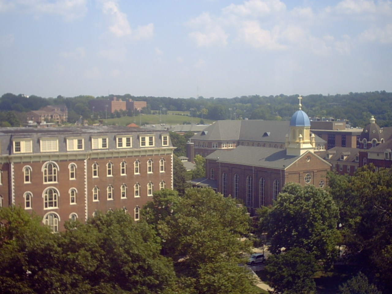 Photograph taken from Roesch Library of St. Mary's Hall and the Immaculate Conception Chapel at the University of Dayton.